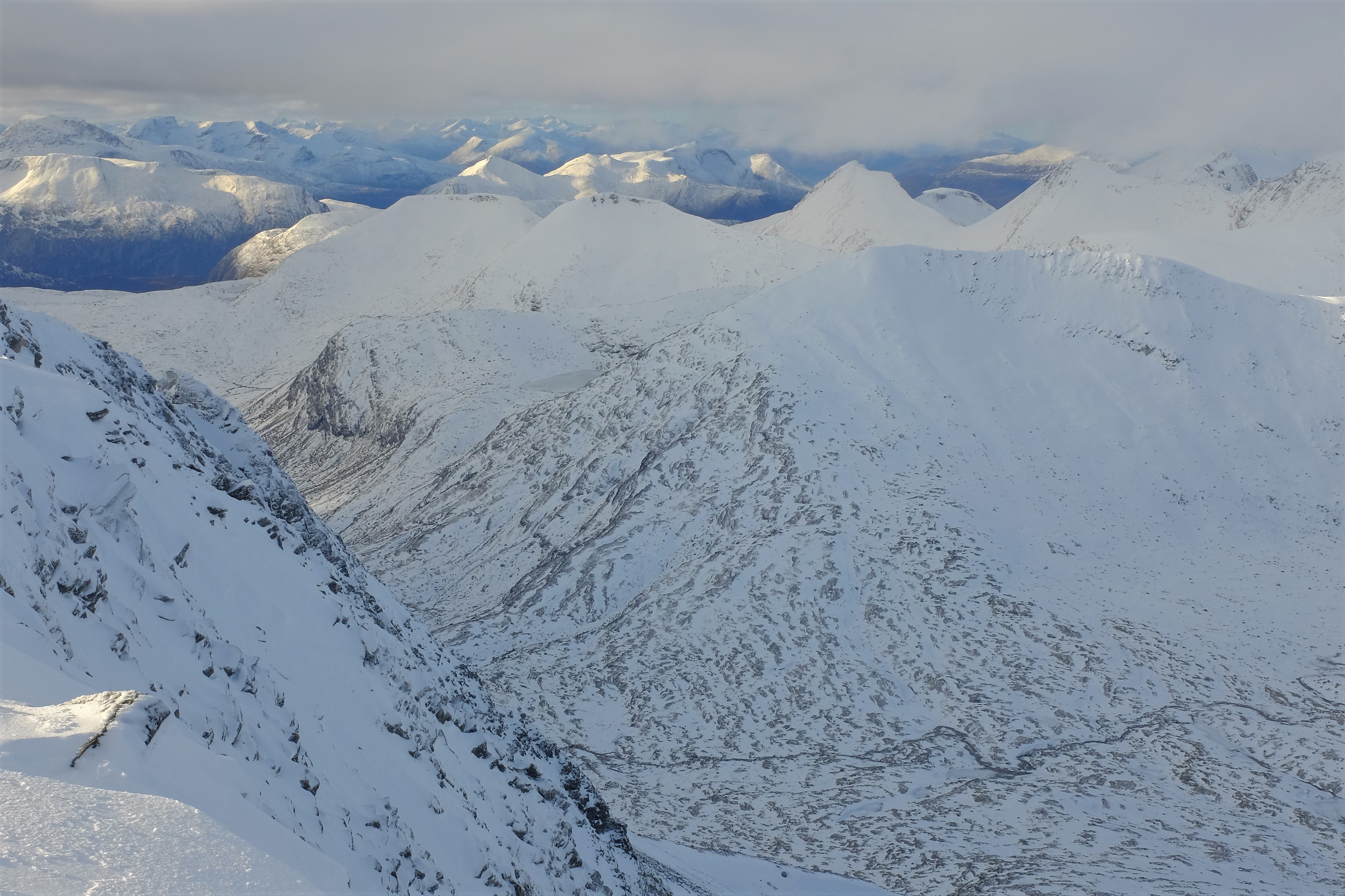 Montains in Reinheimen National Park in Norway. The national park that was established in 2006. The park consists of a 1,969-square-kilometre (760 sq mi) continuous protected mountain area. It is located in Møre og Romsdal and Oppland counties in Western Norway.